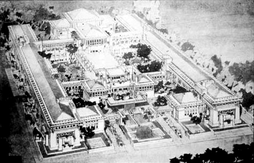 Imperial Hotel, Tokyo final perspective drawing by Frank Lloyd Wright